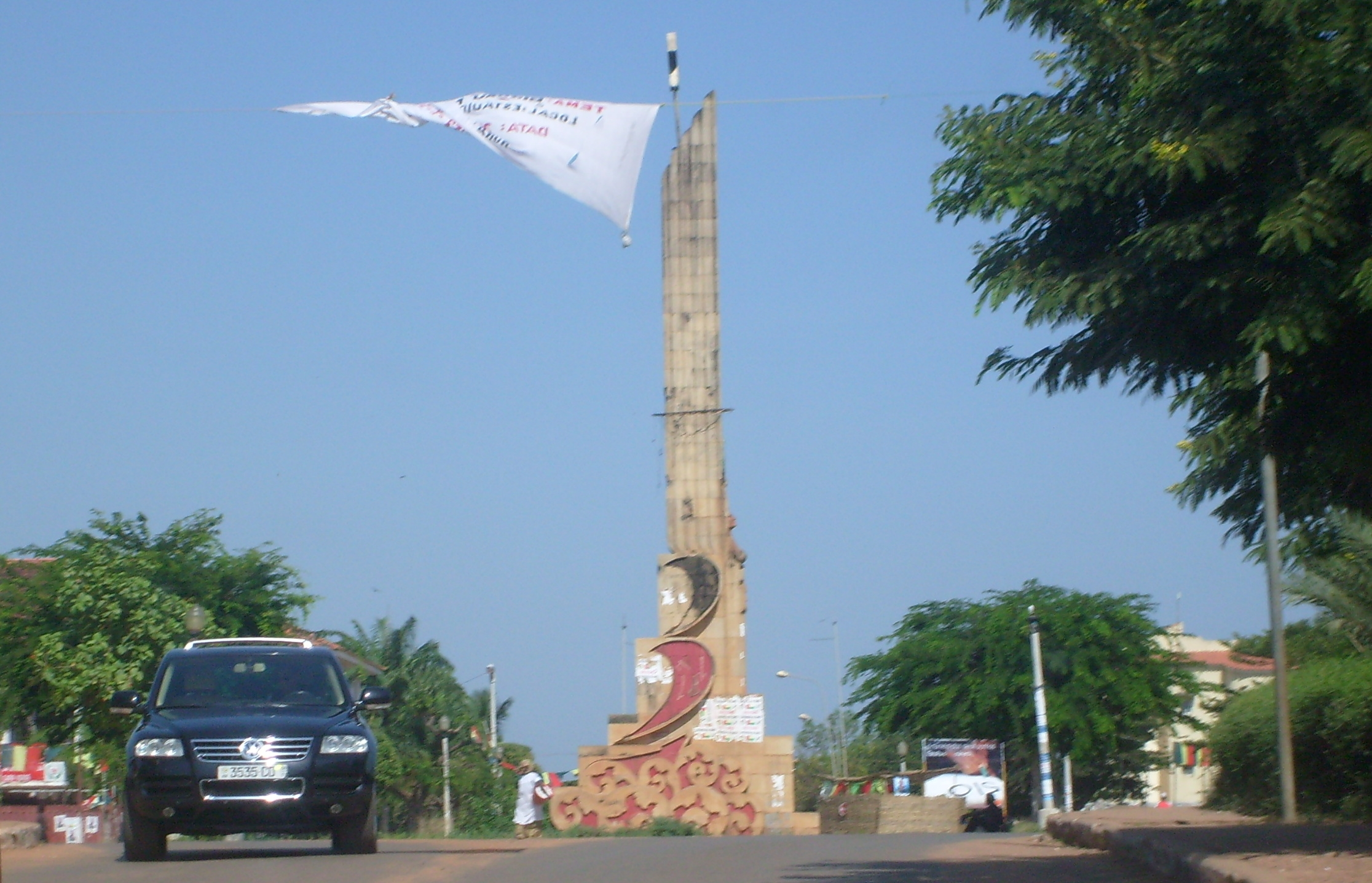 The Monumento aos Heróis da Independência at Praça dos Herois Nacionais in Bissau, Guinea-Bissau